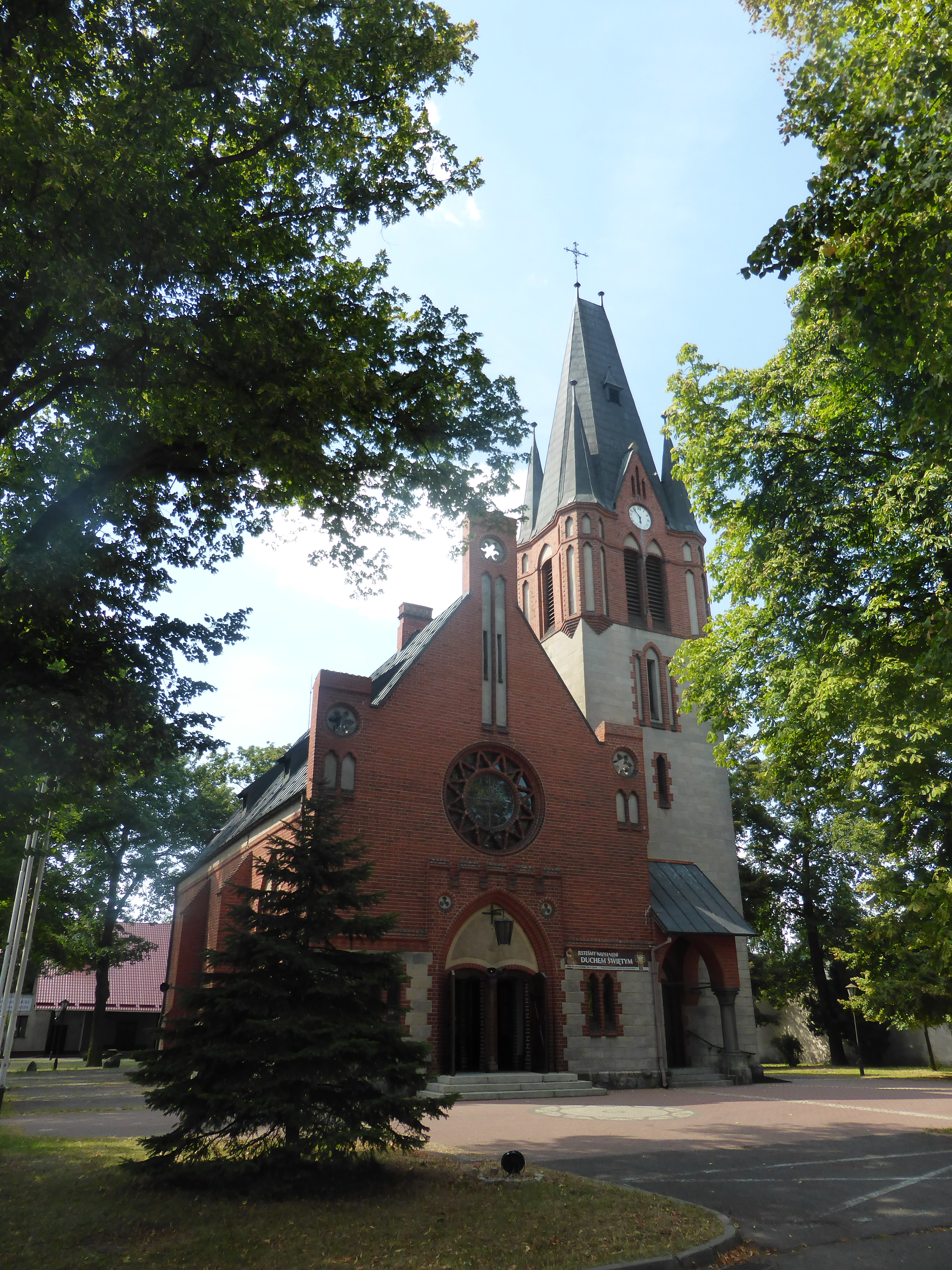 Saint Joseph church in Opalenica (Poland)